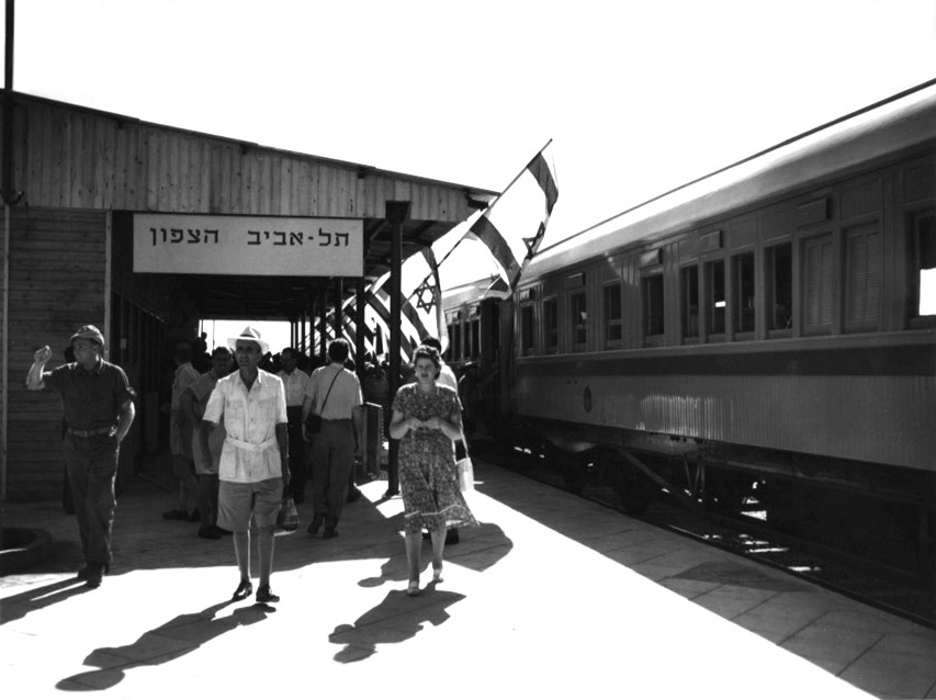 Tel Aviv North Railway Station in 1949, following its inauguration. Today the station (a new building) is called Bnei Brak Railway Station.